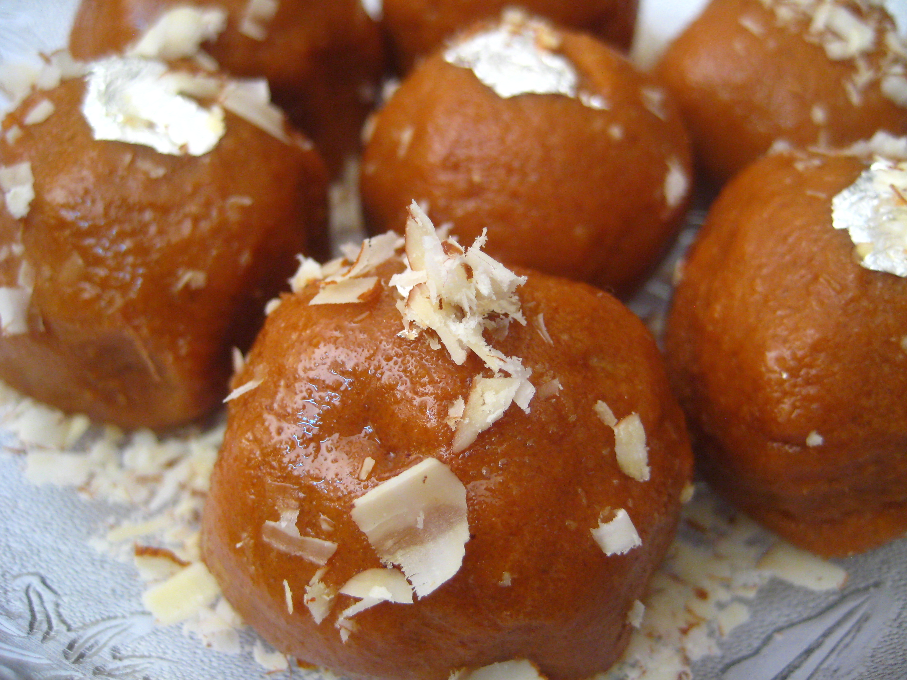 Besan Laddu is a popular ball shaped sweet prepared with besan (chickpea flour), sugar and ghee. It is eaten in daily meals, given as prasad in Hindu temples, served at festivals and religious occasions in India.